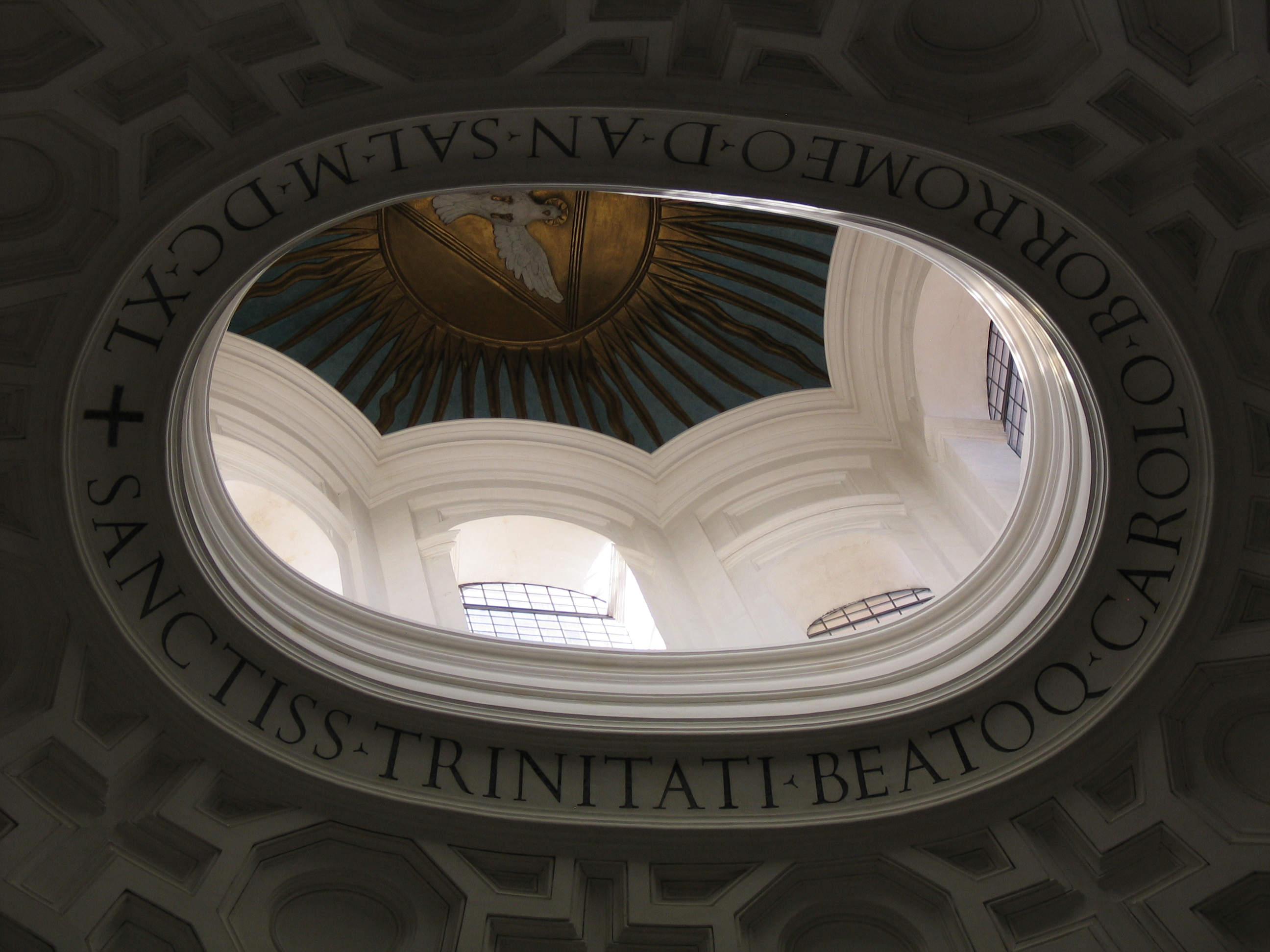 Dome with lantern.